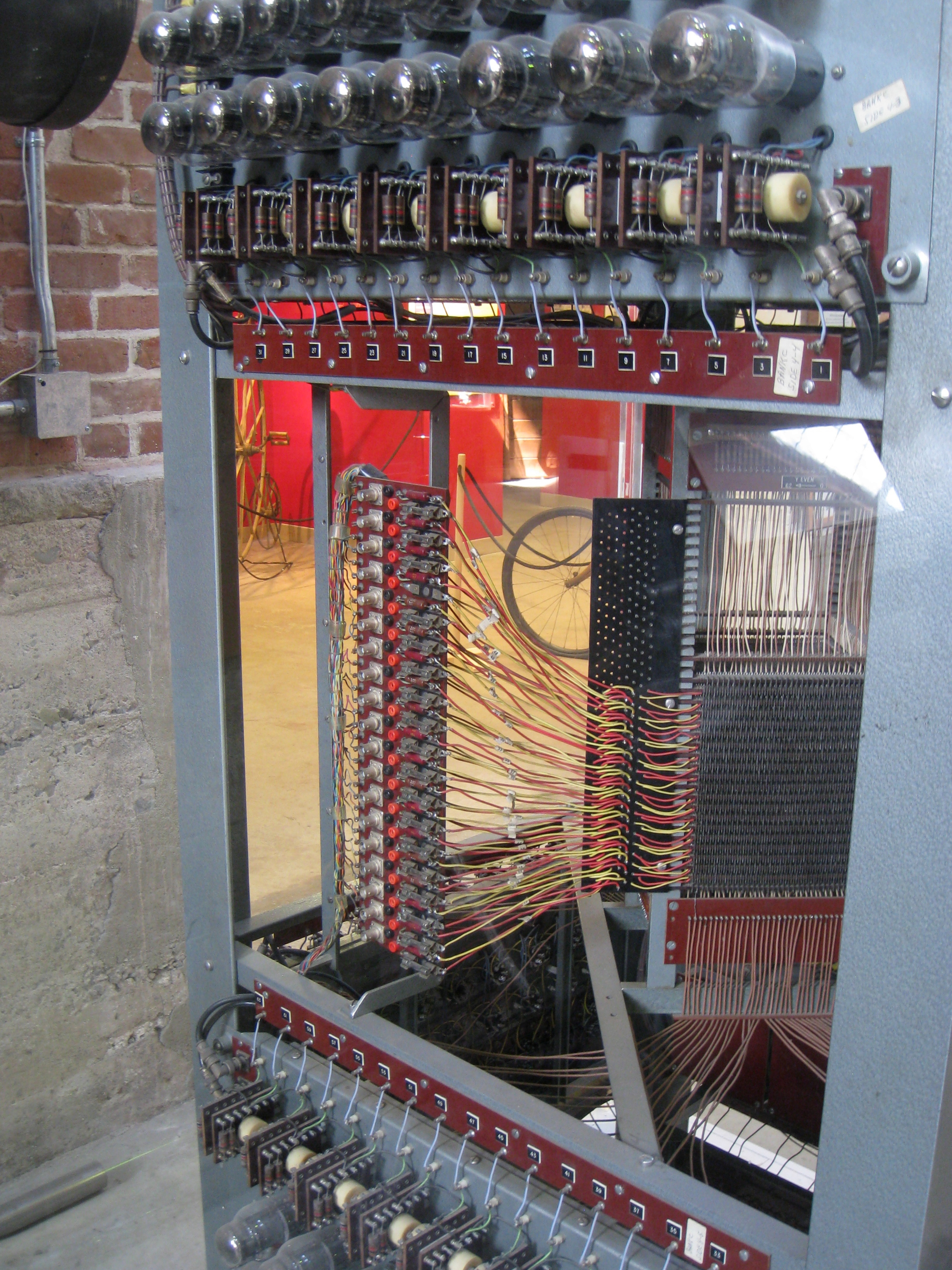 Project Whirlwind - core memory, circa 1951, developed at MIT Lincoln Laboratory, Massachusetts, USA. Museum sign describes capacity as 2Kb; I do not know if this means kilobytes or kilobits, and word size is not describe. Load rate was 40,000 instructions / second. In Charles River Museum of Industry, Waltham, Massachusetts, USA, on loan from the MIT Museum.